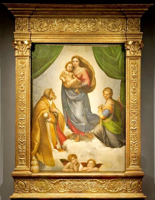 The Sistine Madonna by Raphael, 1512